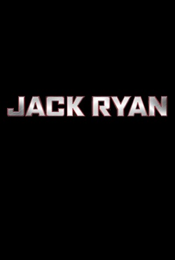 Teaser poster for the movie